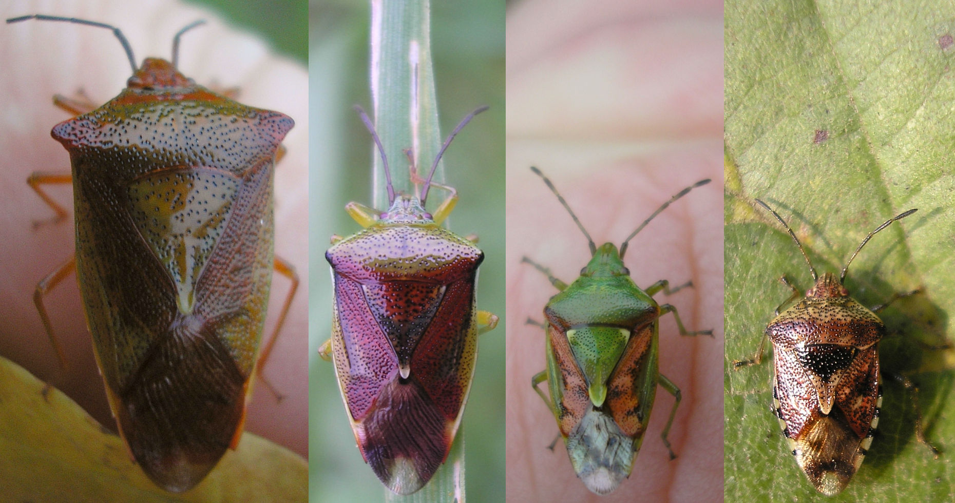 Acanthosomatidae size comparison. Left to right: Acanthosoma haemorrhoidale, Elasmostethus interstinctus, Cyphostethus tristriatus and Elasmucha grisea Location: 1, 2 & 4 from Hengelo, Netherlands, 3 from Hamburg, Germany